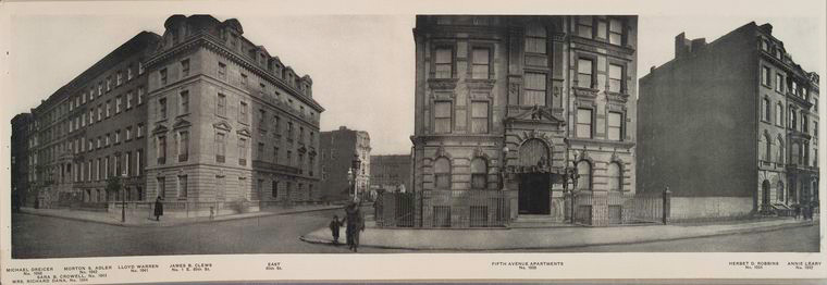 Digital ID: 1113298. [No. 1032 Annie Leary - Fifth Avenue Apartments - James B. Clews - Morton S. Adler - No. 1044 Mrs. Richard Dana.]. Welles & Co. -- Publisher. c1911 Source: Fifth Avenue, New York, from start to finish. ( Repository: The New York Public Library. Irma and Paul Milstein Division of United States History, Local History and Genealogy. See more information about and others at Persistent URL: Rights Info: No known copyright restrictions; may be subject to third party rights (for more information